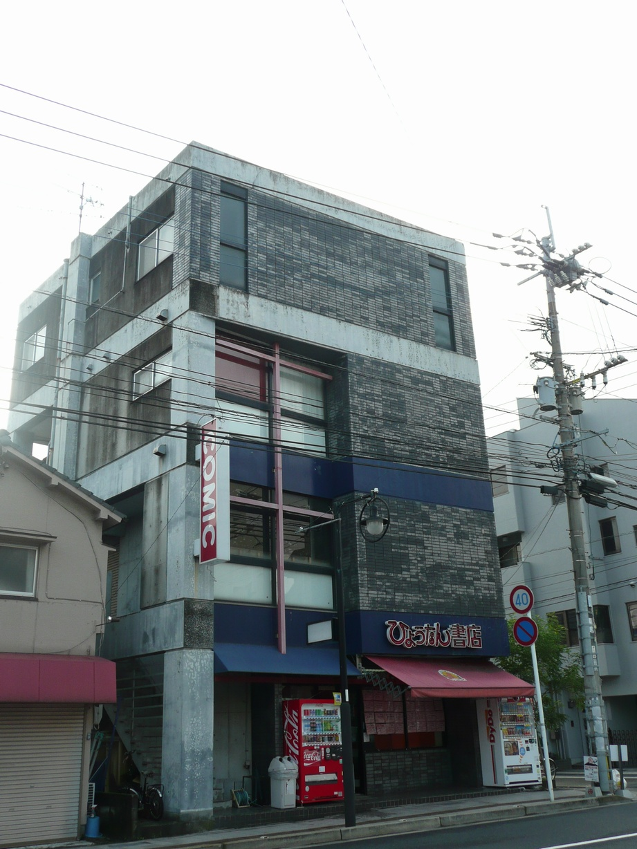 Hyoutan Shoten (Book Shop - Kagoshima City, Japan)